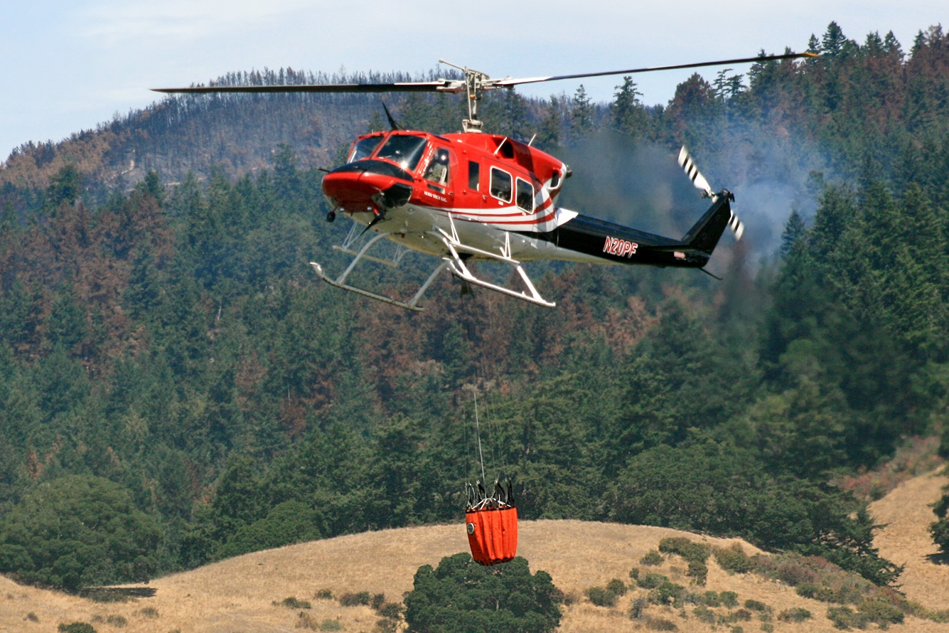 A fire helicopter N20PF with a helicopter bucket. Small wildfire is seen on the right hand side. The bigger wildfire was behind the hills.